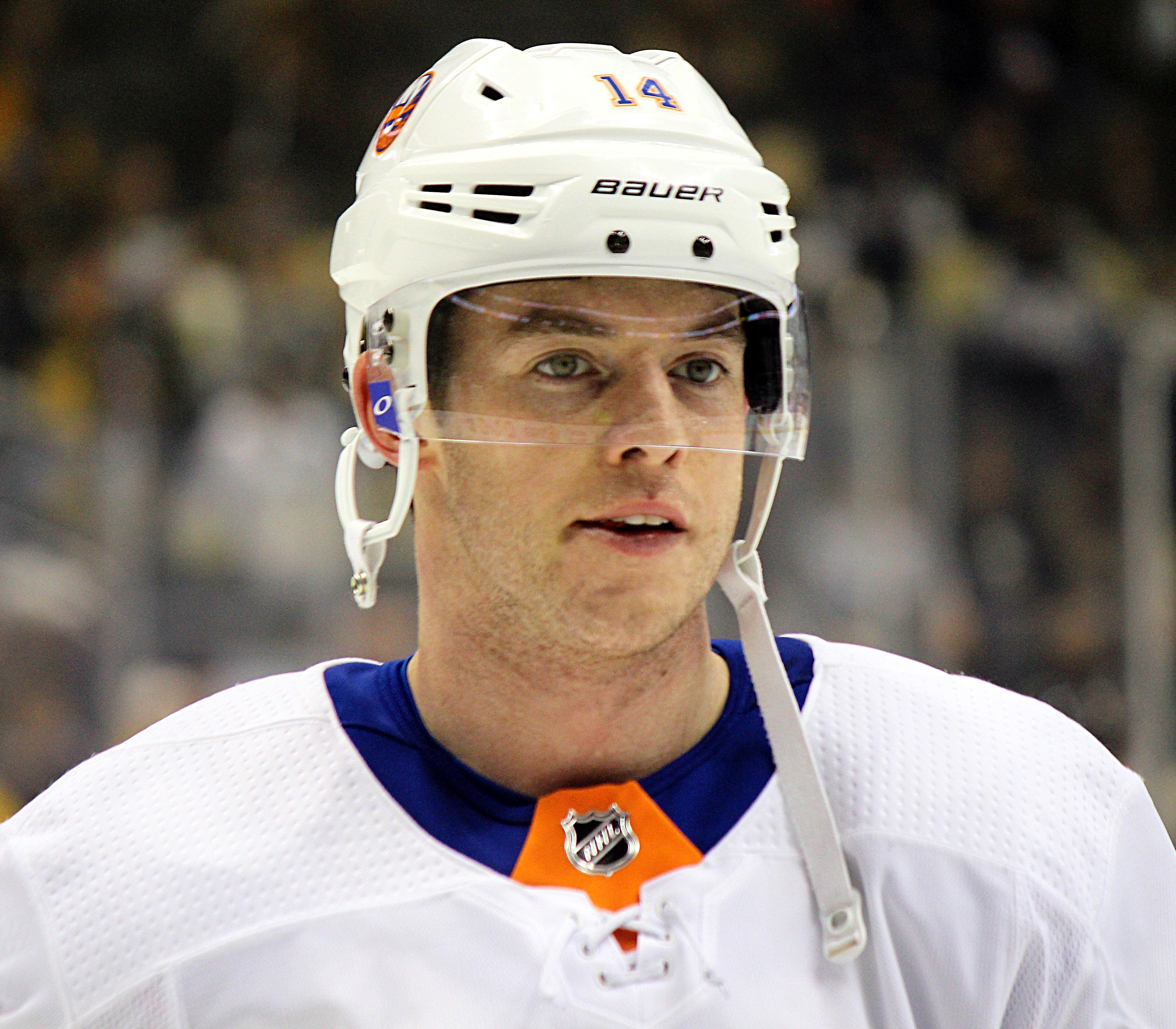 New Yorks Islanders defenseman Thomas Hickey during a game against the Pittsburgh Penguins at PPG Paints Arena in Pittsburgh, PA. Saturday, March 3, 2018.